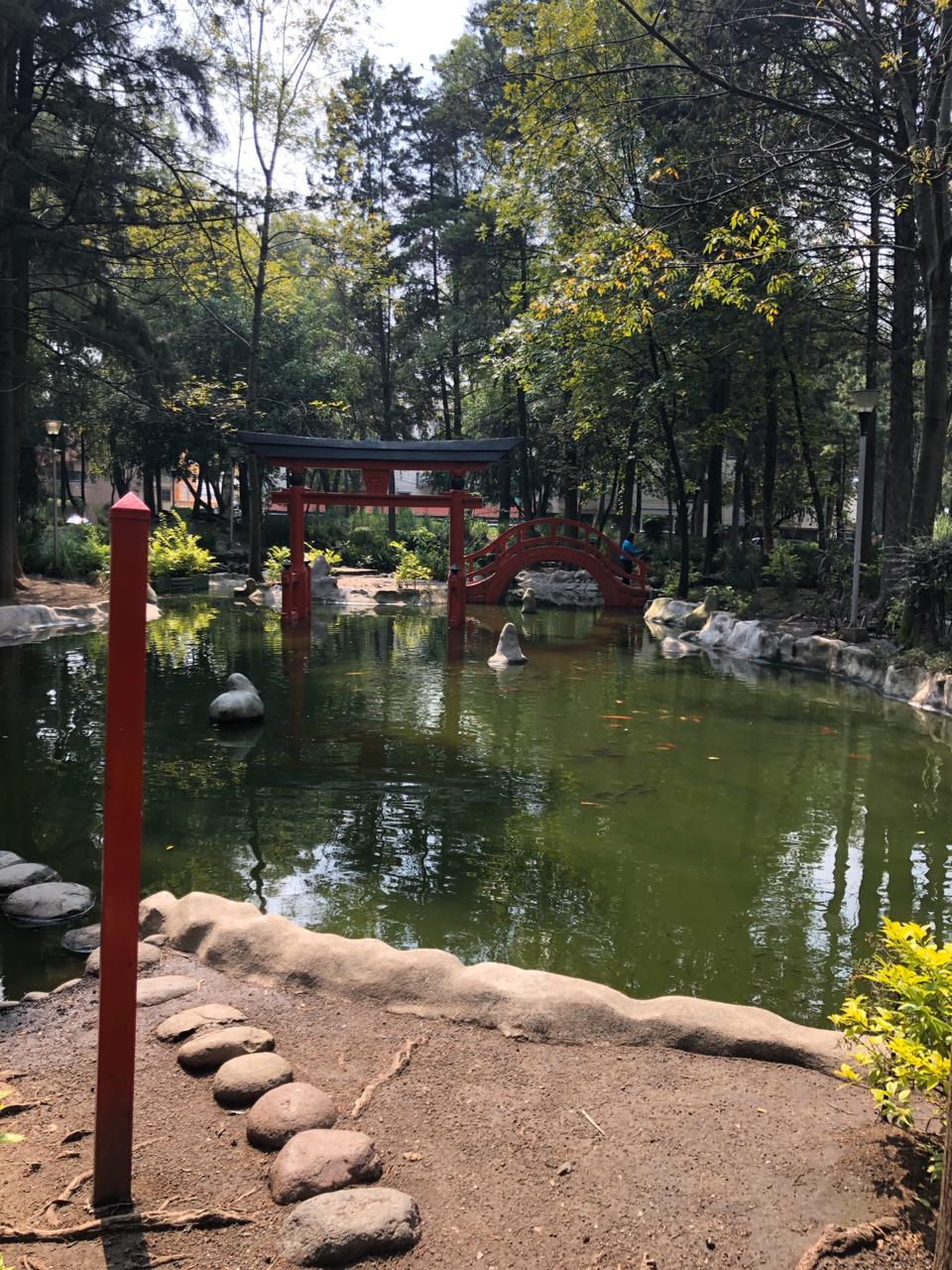 Este parque fue donado por Japón por la amistad diplomática entre México y Japón.